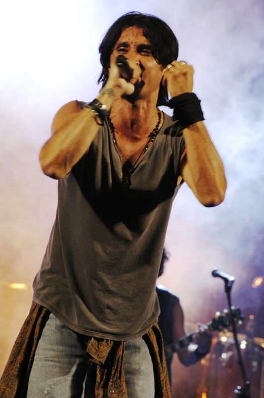 All photos are protected by Copyright ©, any use of the same shall be granted only upon request and agreement with the author, send me an email for information.